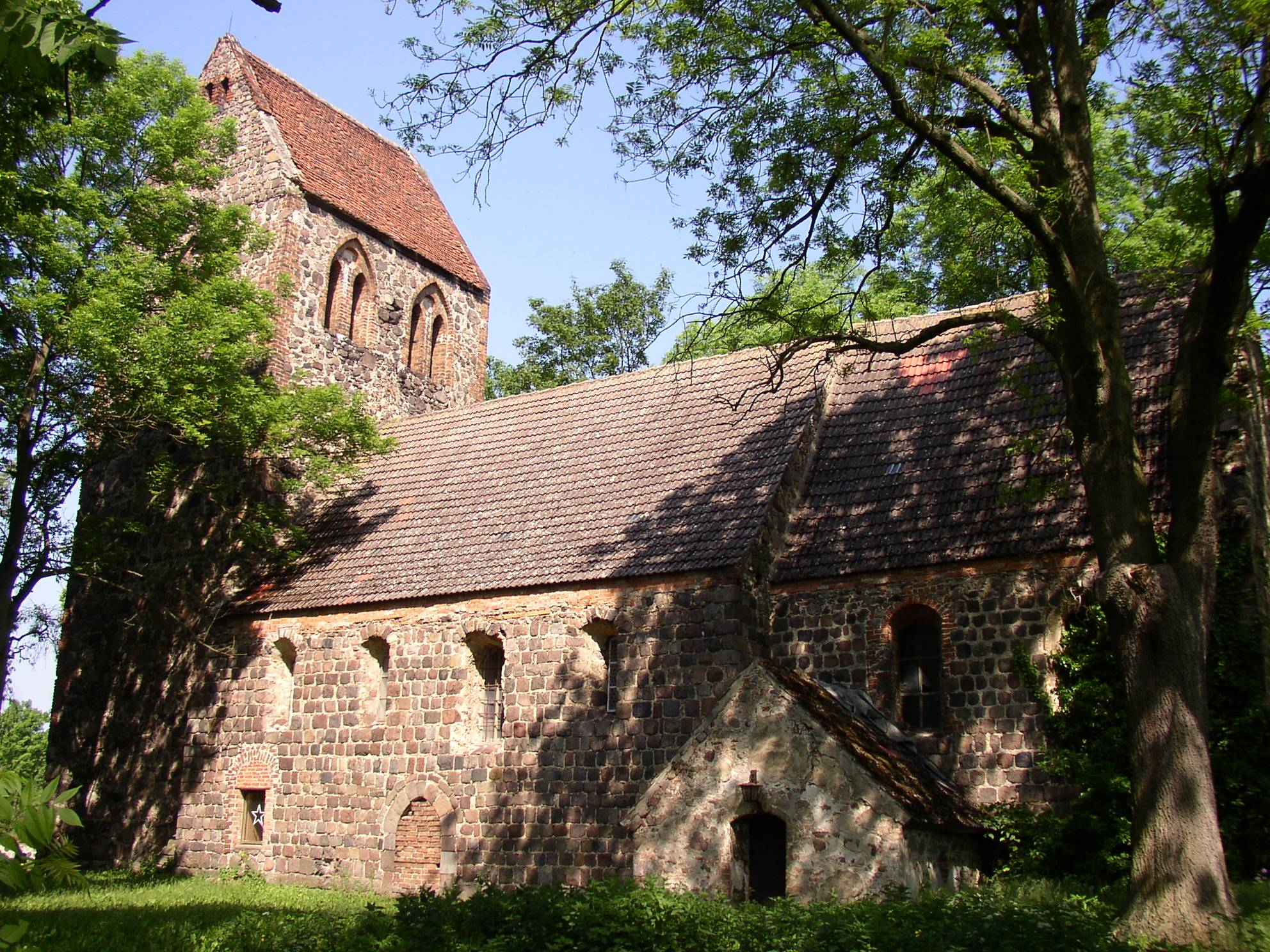 Church in Ringenwalde in Brandenburg, Germany